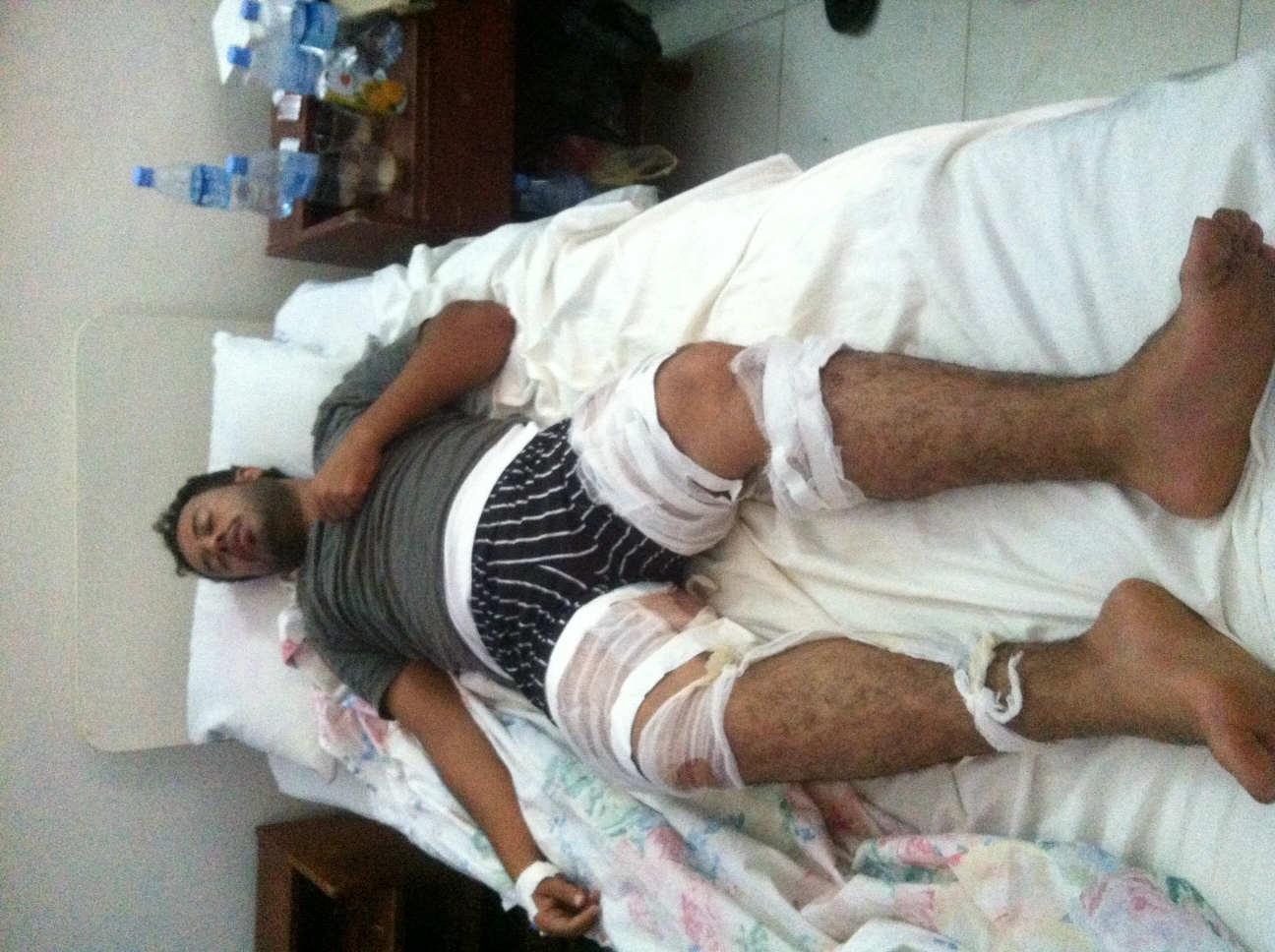 Original description: "Jehad Mohamed, 25, set himself on fire using gasoline and a match outside the UNHCR office in Hargeisa, the capital of the self-declared republic of Somaliland, Oct. 6, 2015. (photo: B. Kariye)"